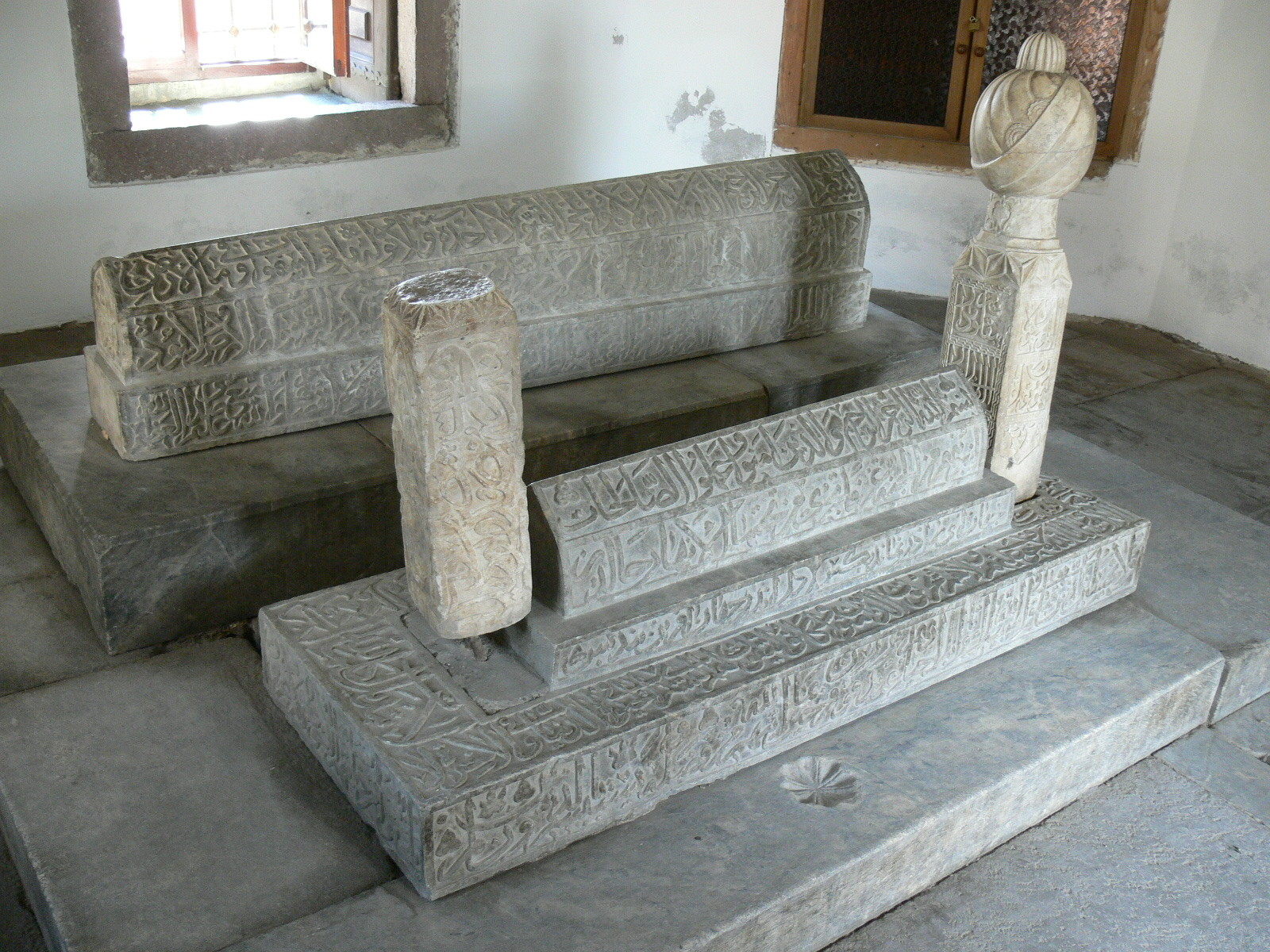 Mevlana Museum, Konya ( Turkey ). Türbe of Hurrem Pasha - graves.